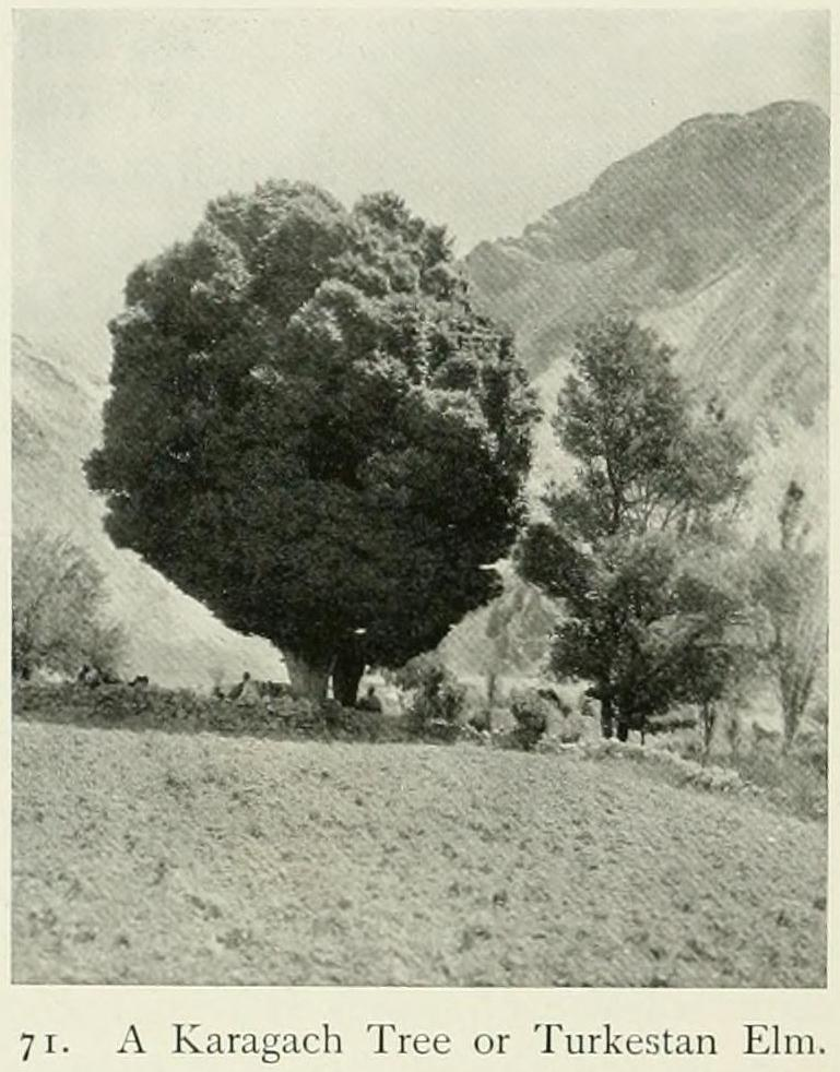 'Karagach' from The Duab of Turkestan. 1913